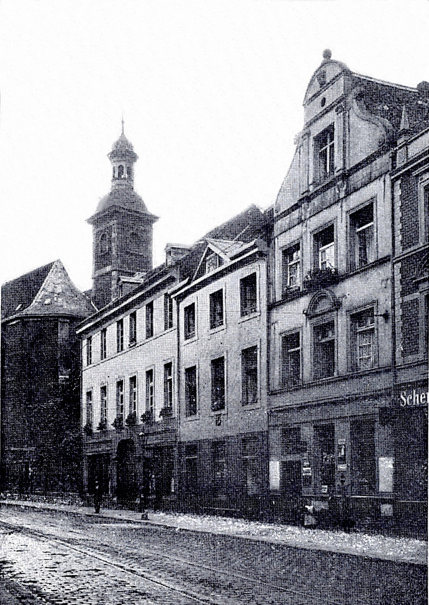 Düsseldorf, Ratinger Straße, Kreuzbrüderkirche (links), Nr. 6 "Zum Schwarzen Horn" (Mitte), Nr. 8 mit Volutengiebel und Pilastergliederung (rechts).jpg